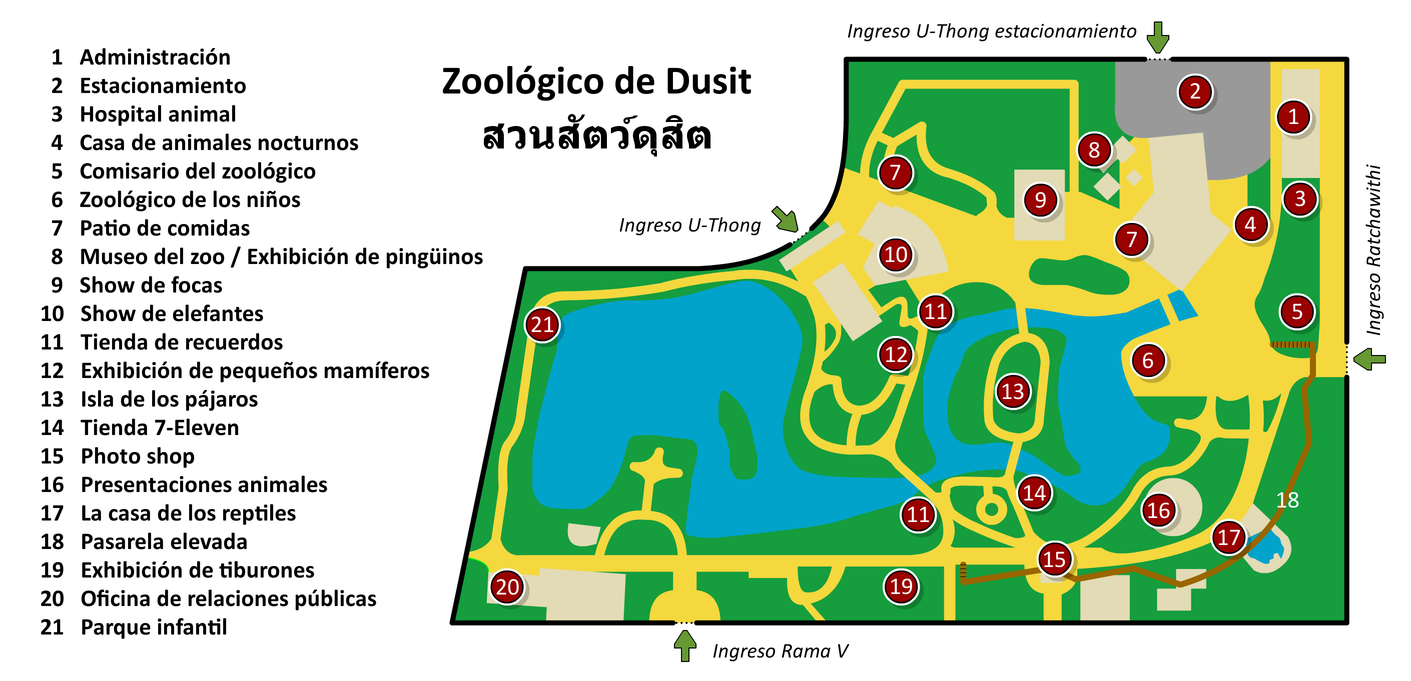 Dusit zoo map, Bangkok, Thailand